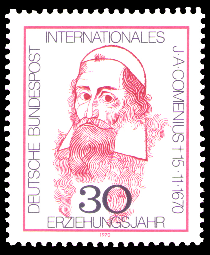 stamp for 300 years of death of J. A. Comenius (1592-1670) at the international year of education Ausgabepreis: 30 Pfennig First Day of Issue / Erstausgabetag: 12. November 1970 Michel-Katalog-Nr: 656